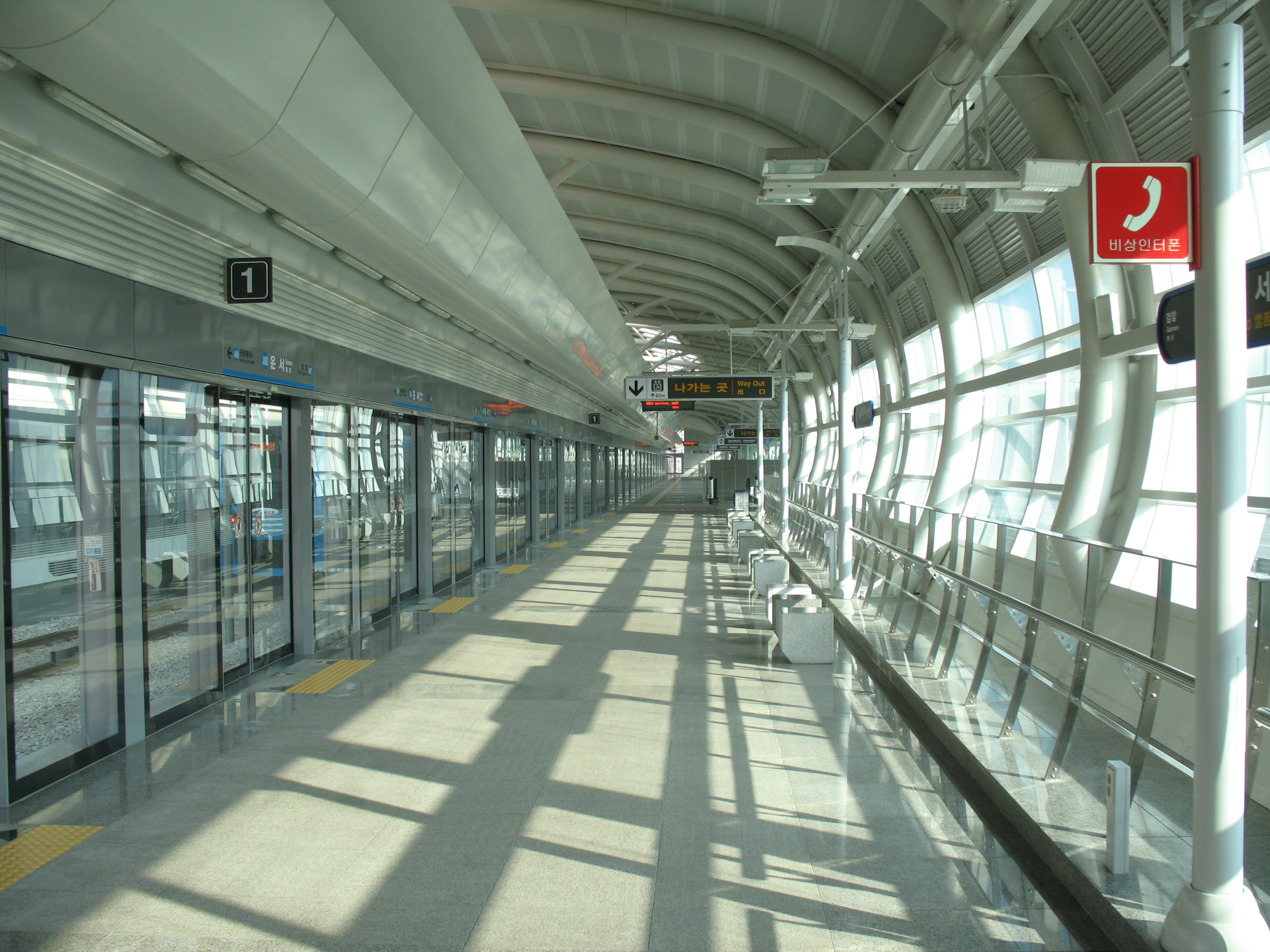 Unseo Station platform.